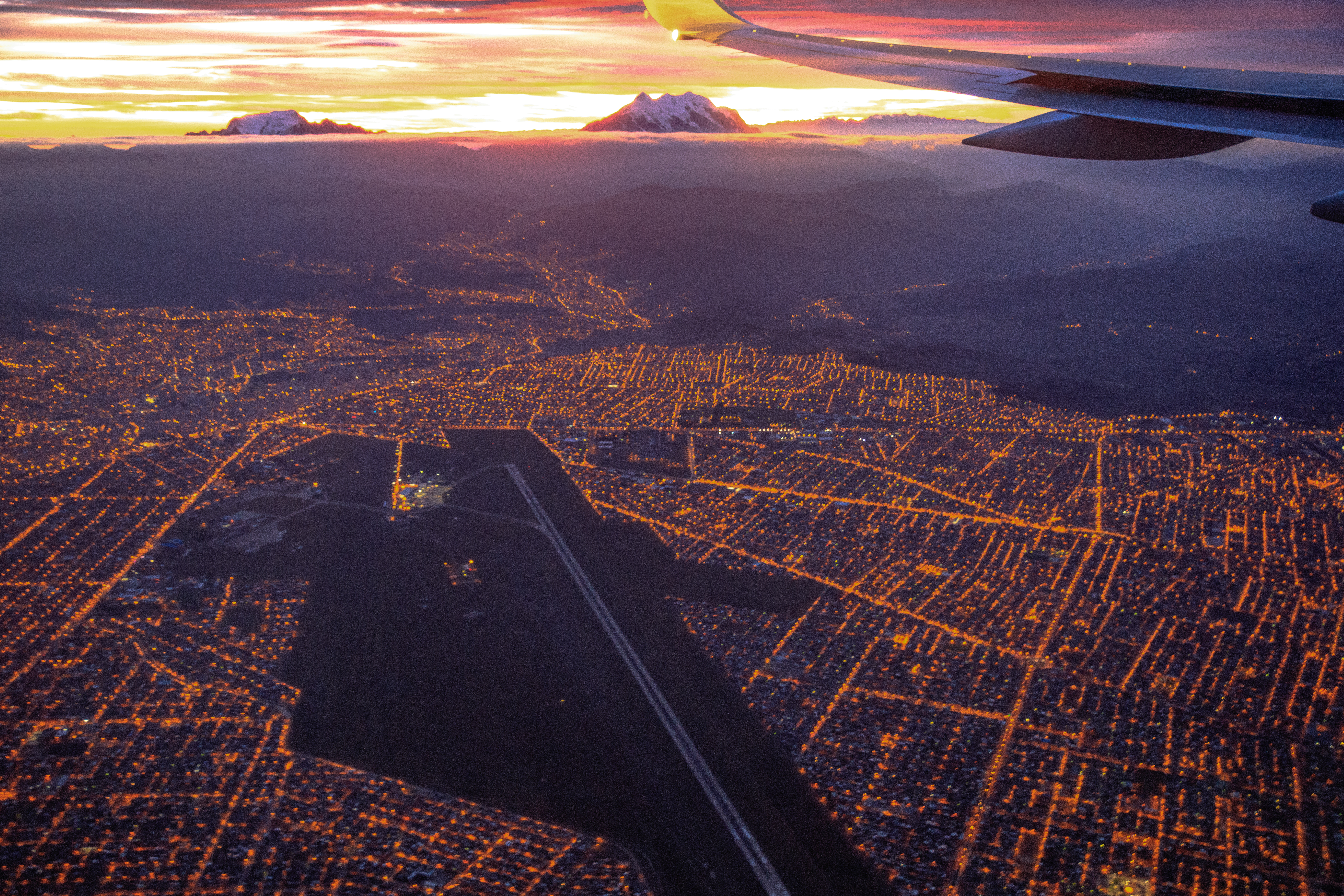 AA flight from MIA to LPB...cruising through the Andes en route to La Paz, Bolivia......Mt Illamani (6438m) on the right...LPB airport (in El Alto) at 4160m...